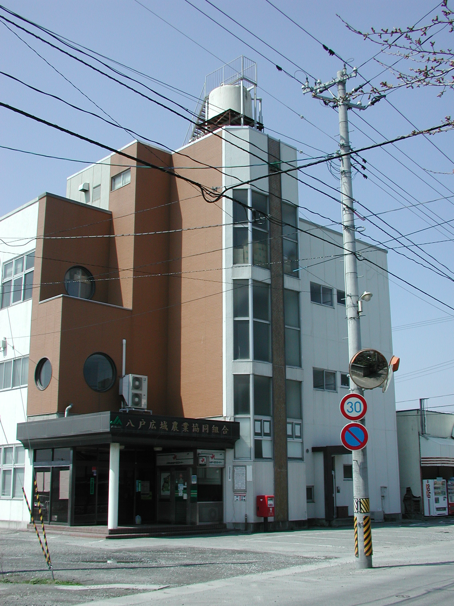 Hachinohe-KŌiki Agricultural Cooperatives Head Shop & Kaminaga Branch